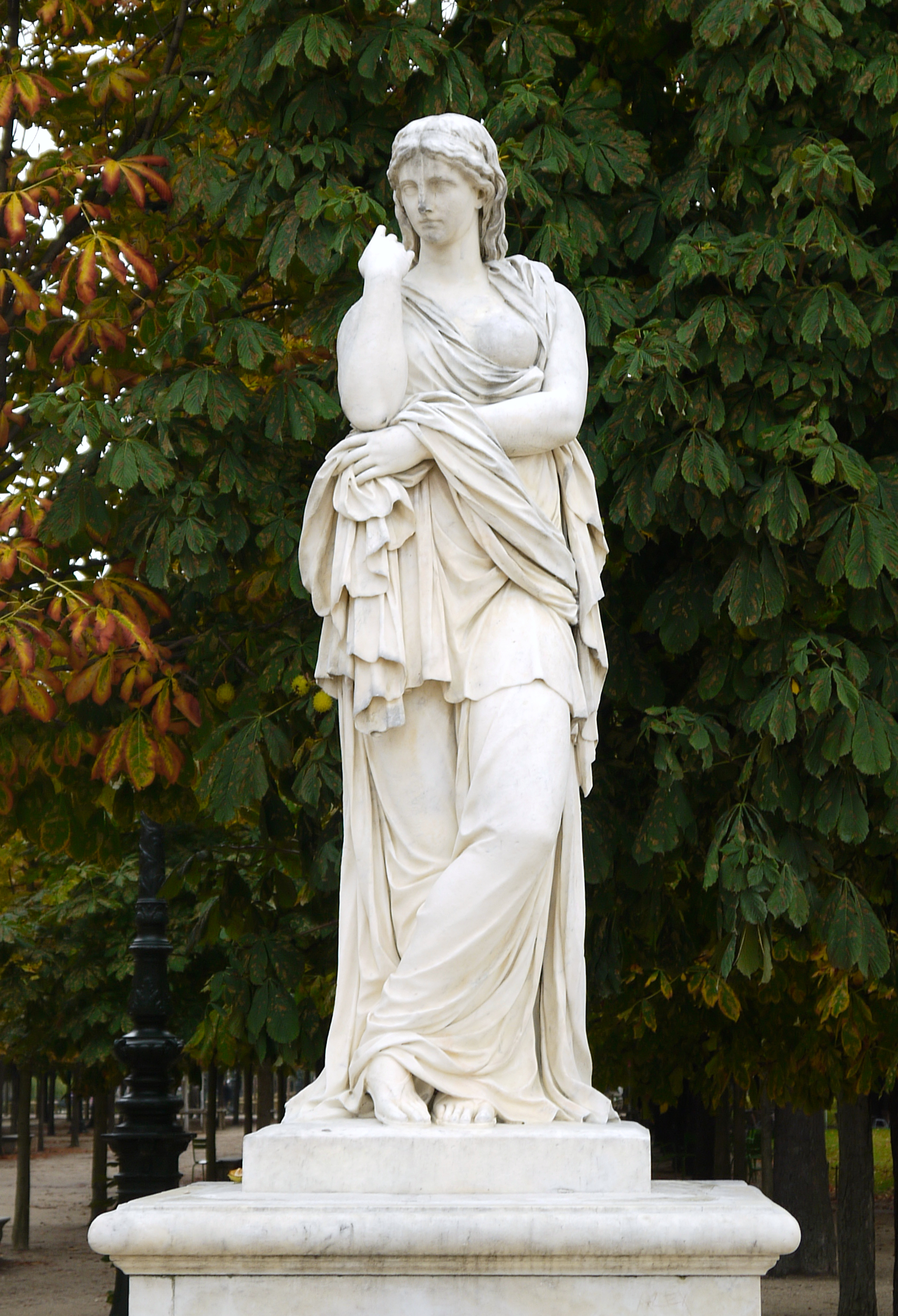 Véturie by Pierre Legros the Younger, Tuileries Garden, Paris.